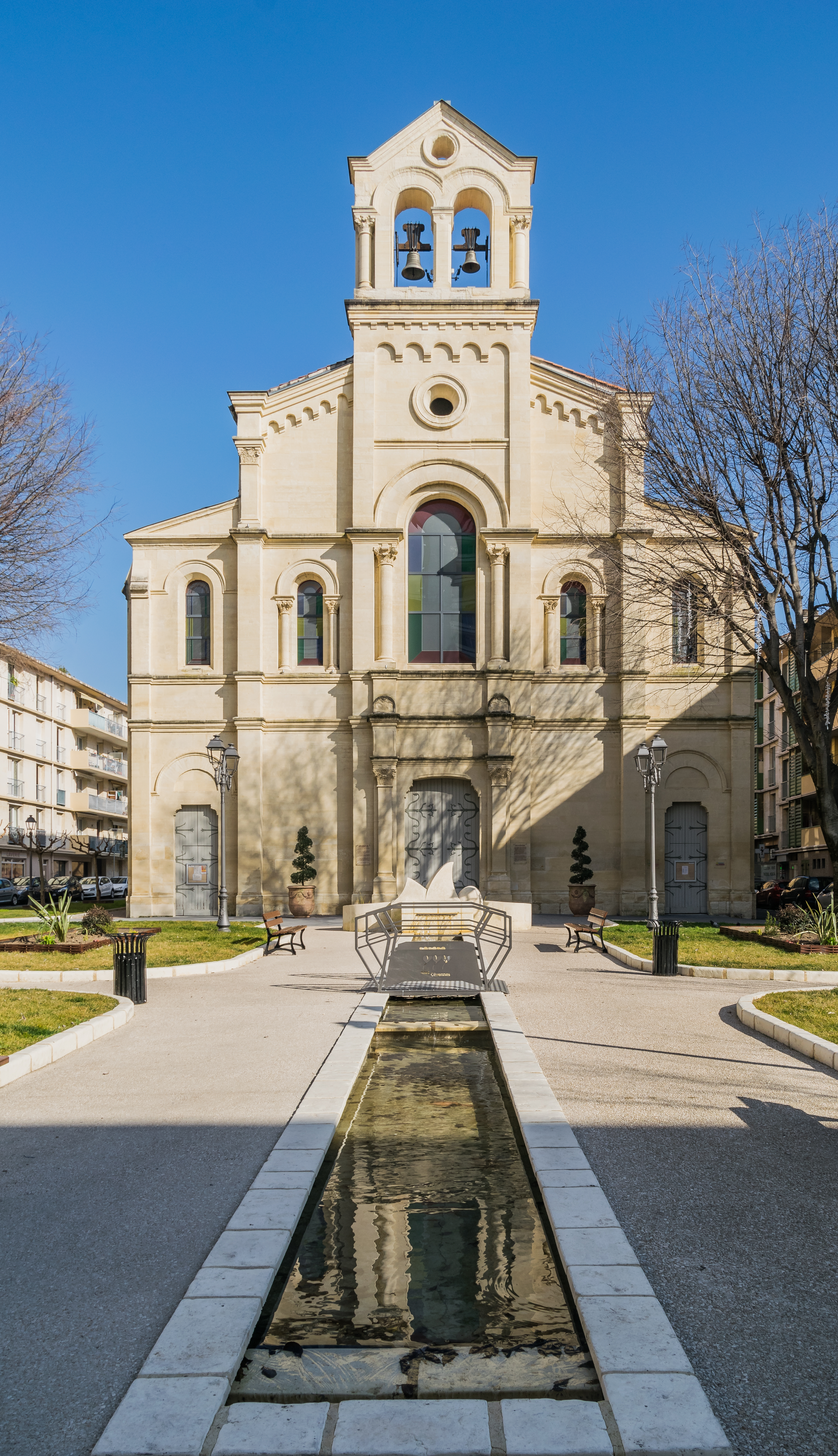 Grand Protestant Temple of Alès, Gard, France